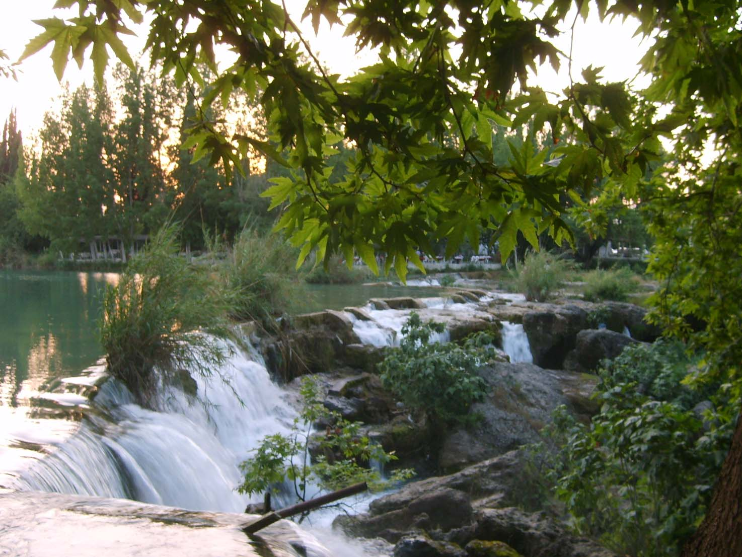 Waterfall Berdan